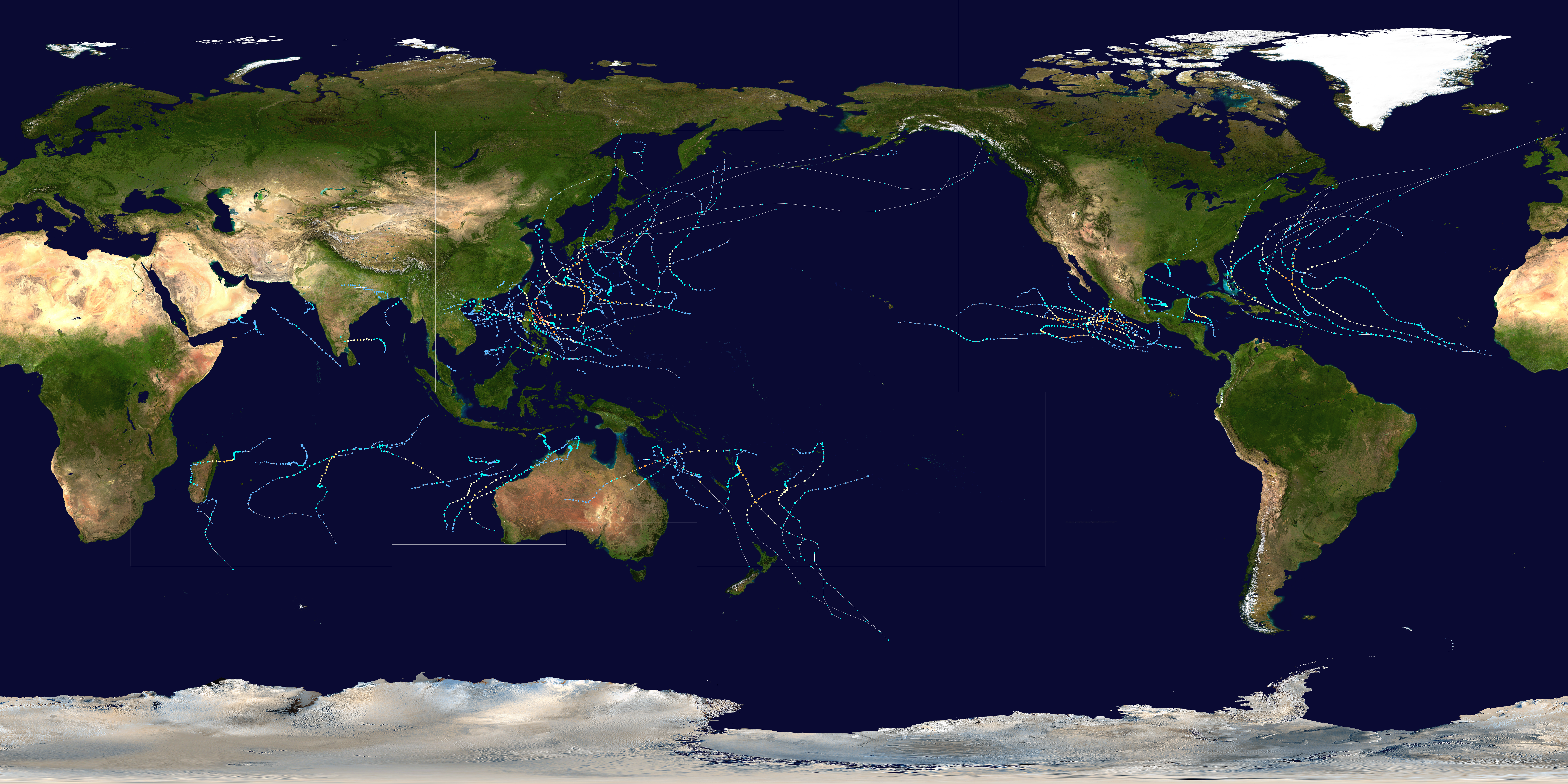 Tropical cyclones worldwide in 2011